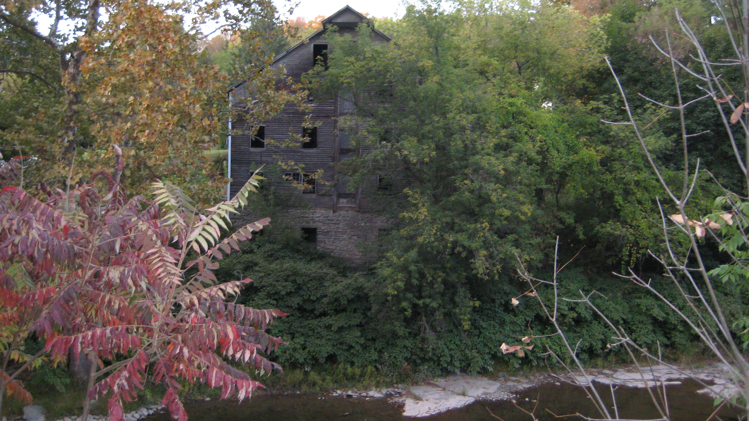 Old White Mill, Off Welles Street Meshoppen